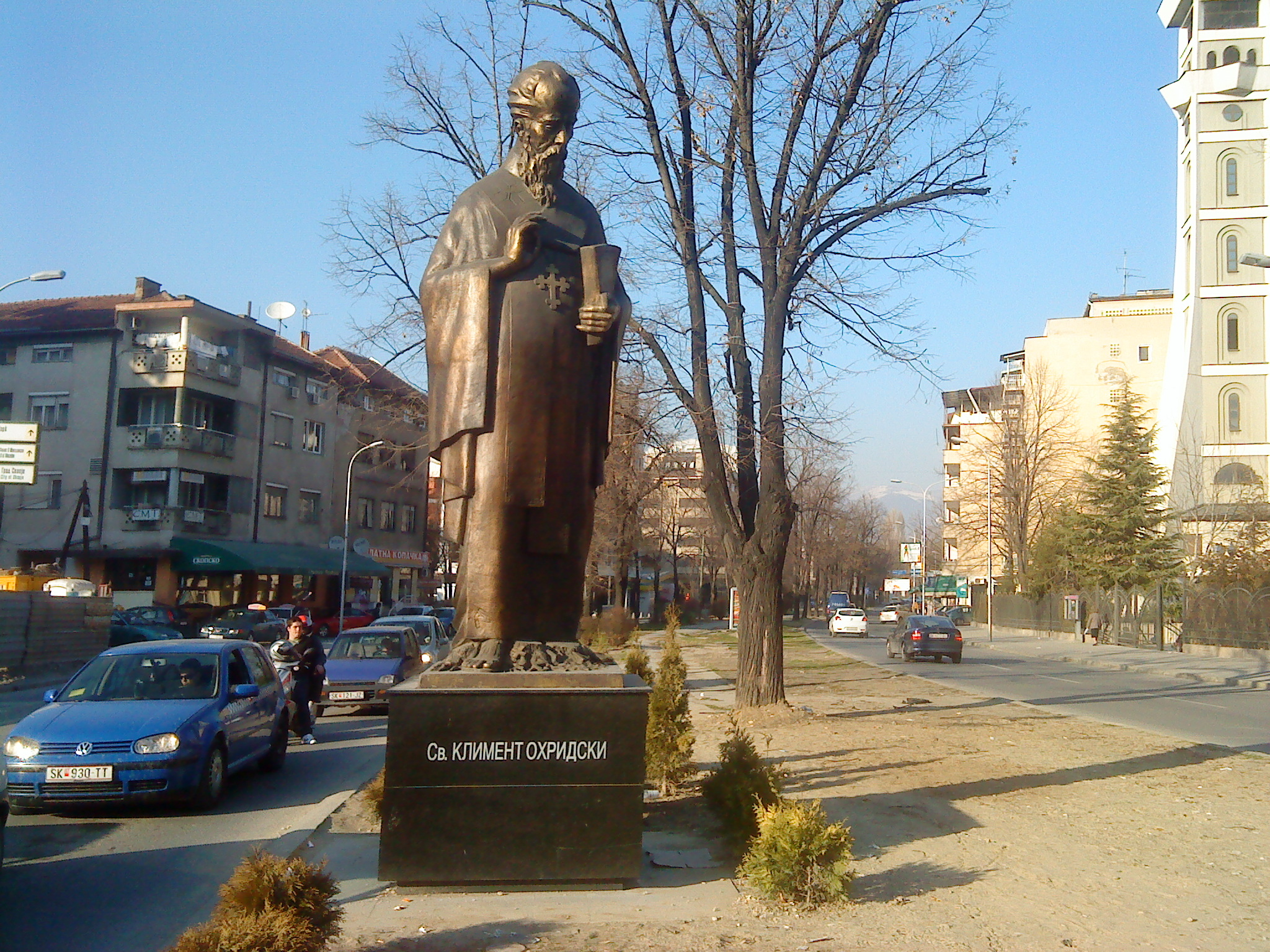 Monuments in attribute of St. Climent of Ohrid in Skopje